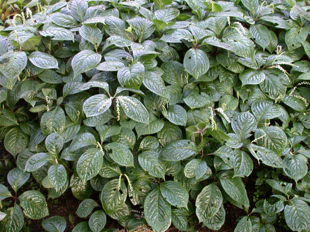 Specimen labelled: "Chloranthus oldhami. Chloranthaceae."